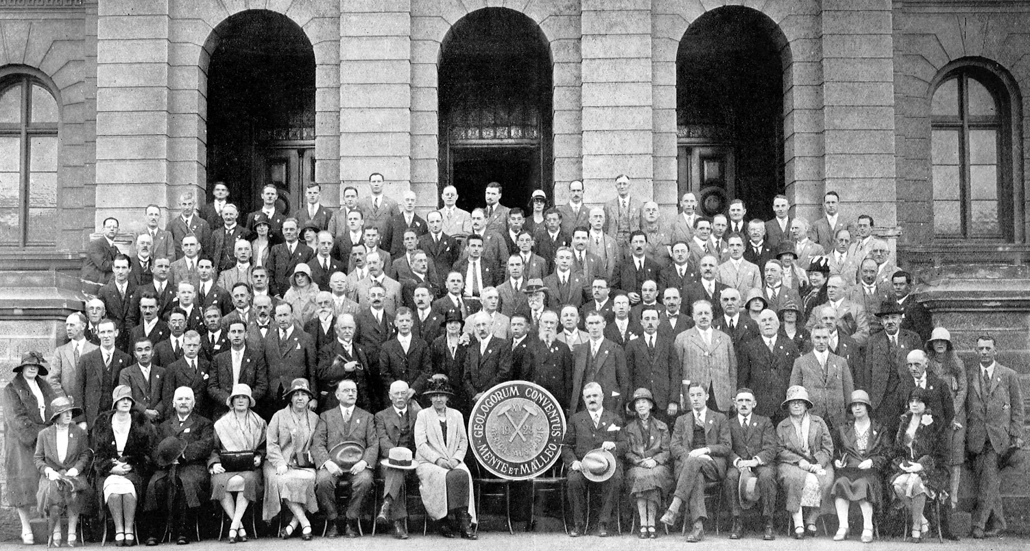 15 Session of the International Geological Congress, South Africa, 1929